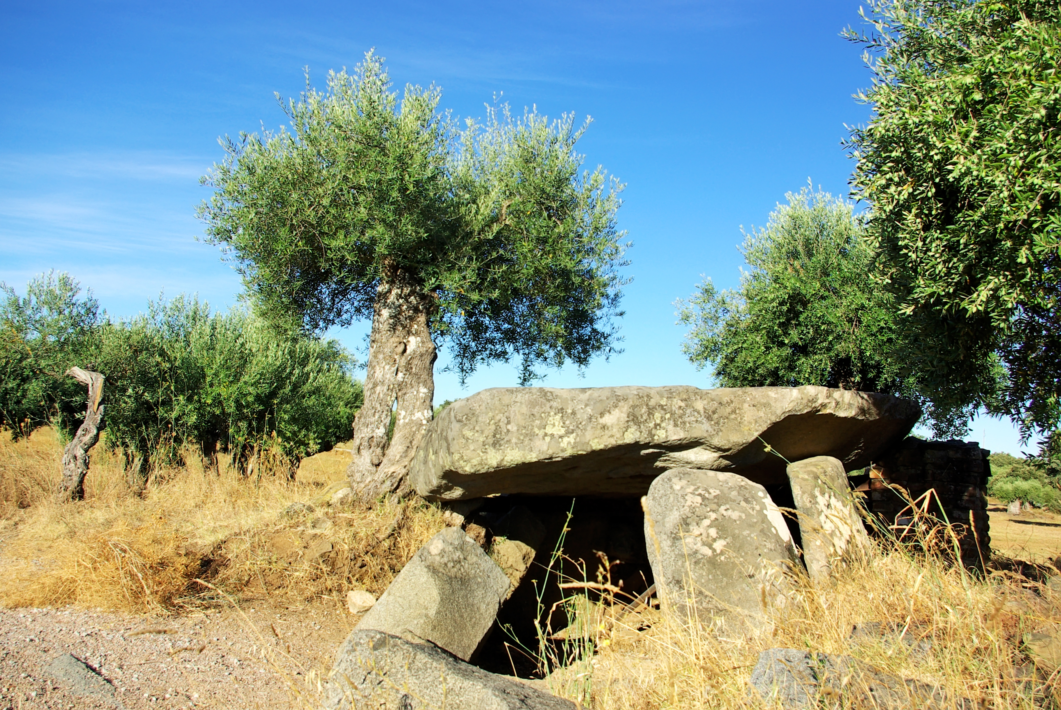 Cultural heritage monument - Ancient Olive trees in a grove near Reguengos de Monsaraz. This file was uploaded for Wiki Loves Monuments in Portugal with the unique identifier 97025654.